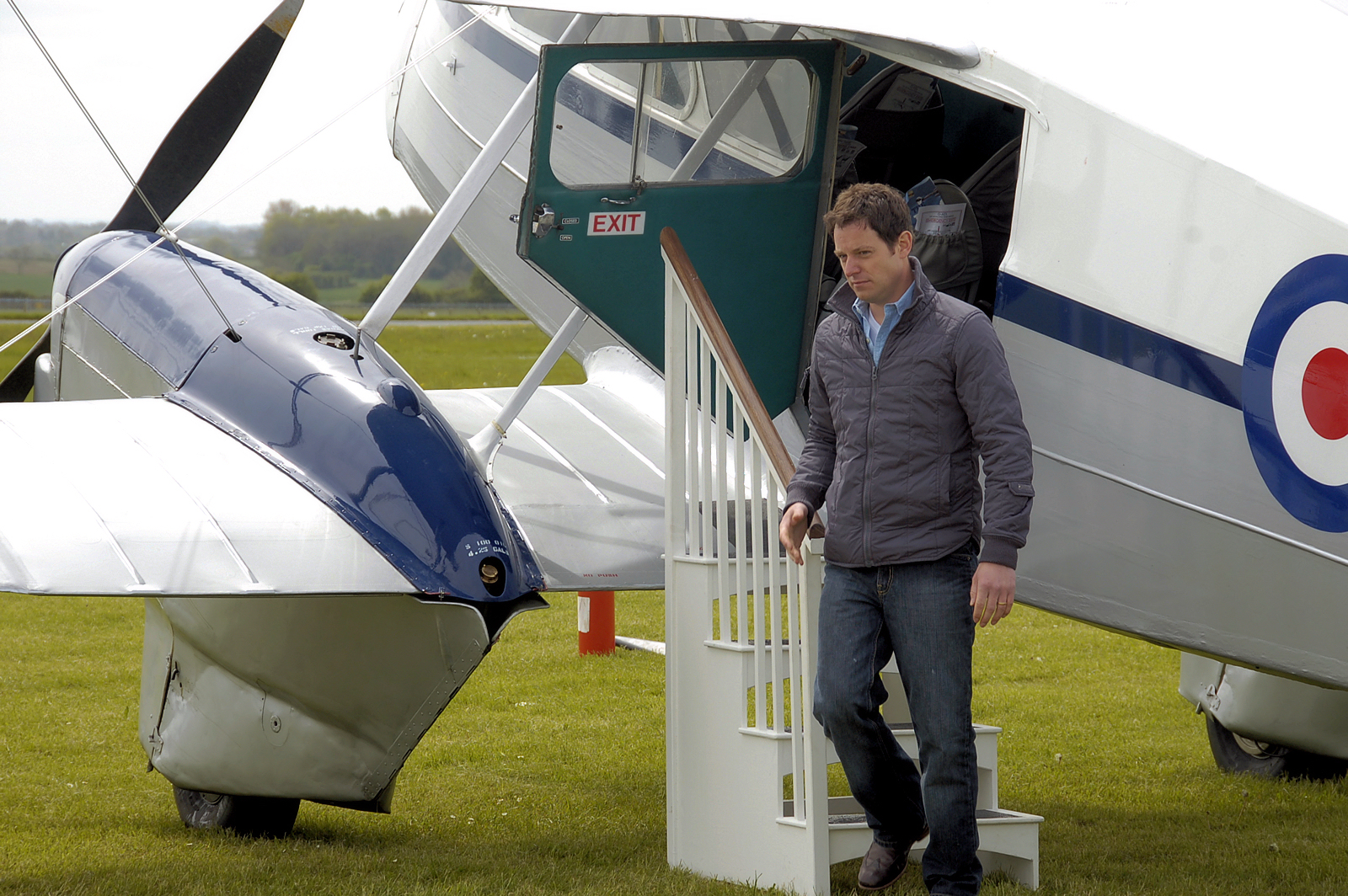 Country file is a UK TV programme. One of the presenters is Matt Baker, seen during filming at Cotswold Airport, Kemble, Gloucestershire, England.